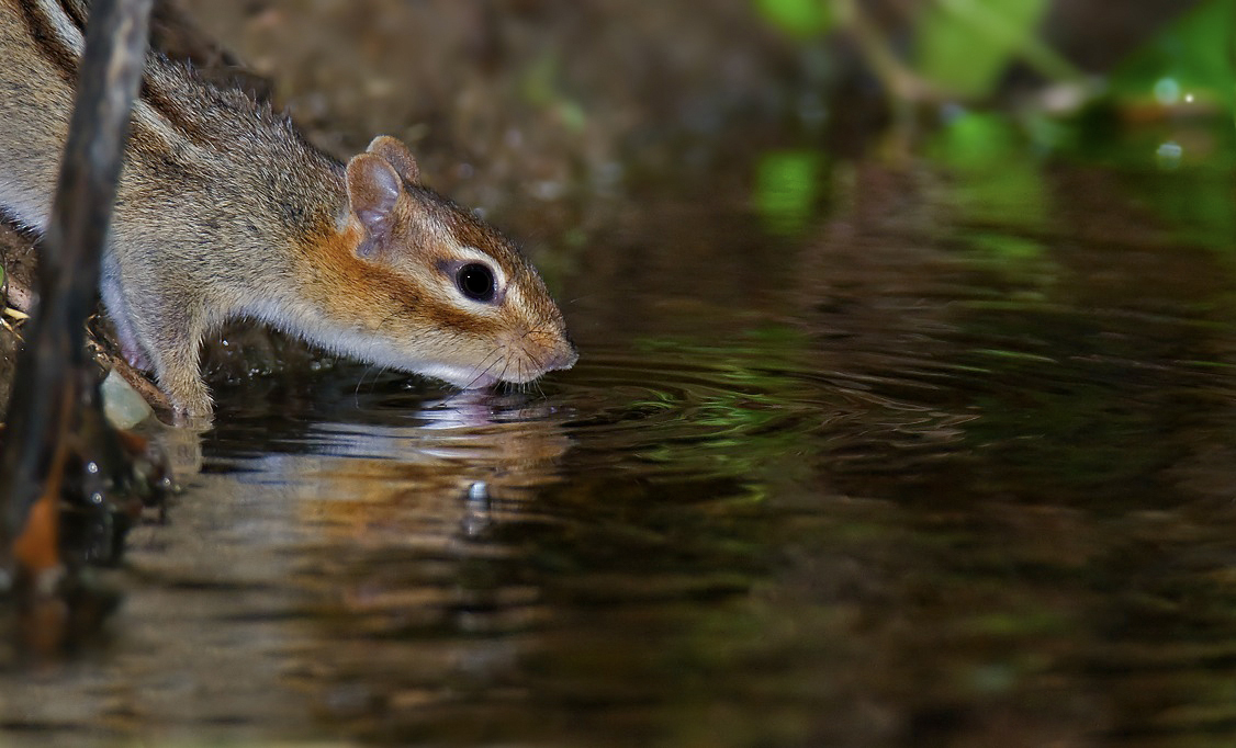 chipmunk